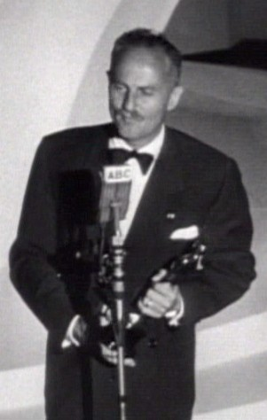 Cropped screenshot of American film producer Darryl F. Zanuck in the trailer for the film Gentleman's Agreement (1947). The trailer made use of a small amount of external footage, including Zanuck's acceptance of the Academy Award for this film.